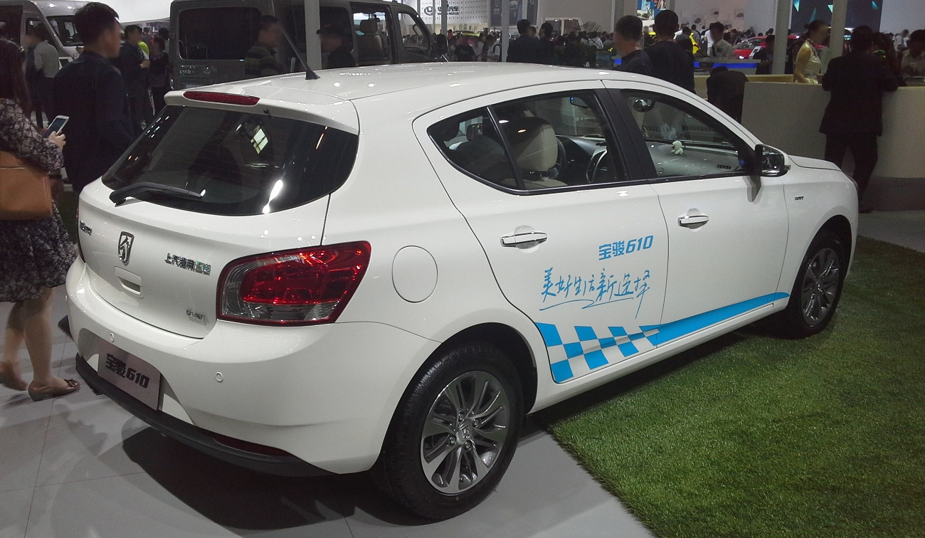 Baojun 610 photographed at the Auto China 2014, Beijing, China.